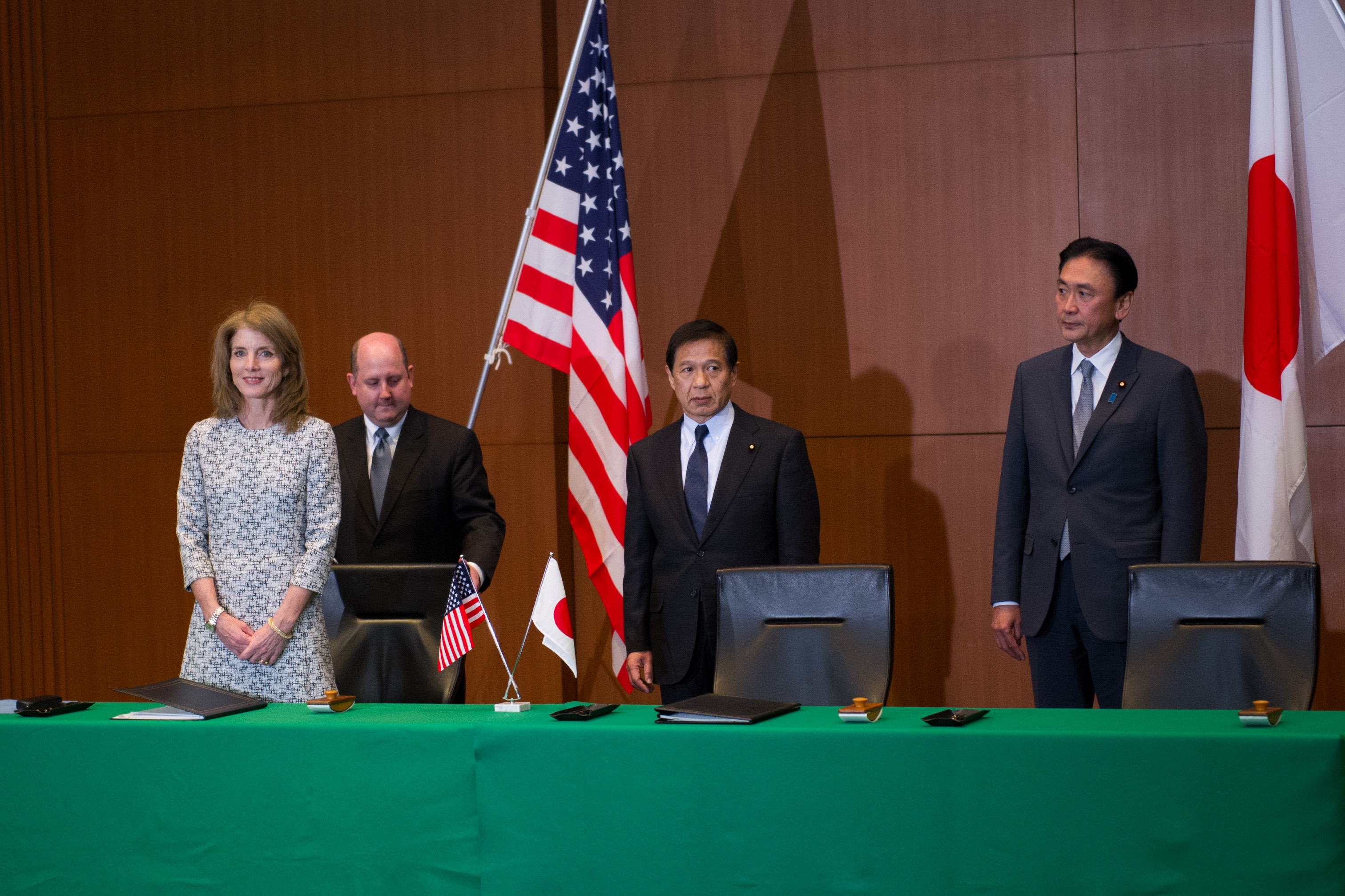 Norio Mitsuya, Senior Vice-Minister for Foreign Affairs, Keiji Furuya, Chairman of the National Public Safety Commission, and Caroline Kennedy, Ambassador to Japan, attended the Ceremony of the Signing of the Agreement between the Government of Japan and the Government of the United States of America on Enhancing Cooperation in Preventing and Combating Serious Crime in Tōkyō Metropolis on February 7, 2014.